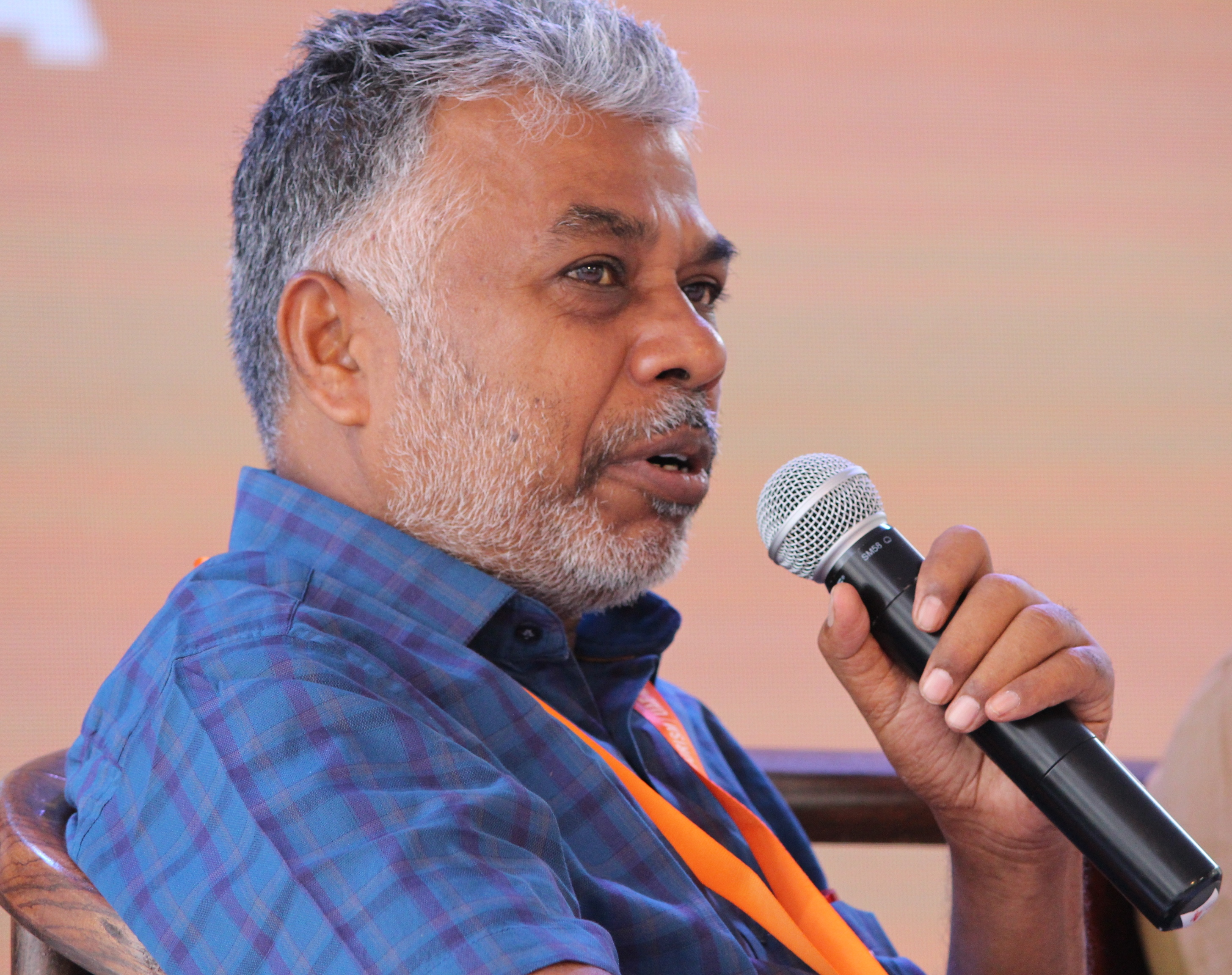 Perumal Murugan at Kerala Literature Festval in 2018